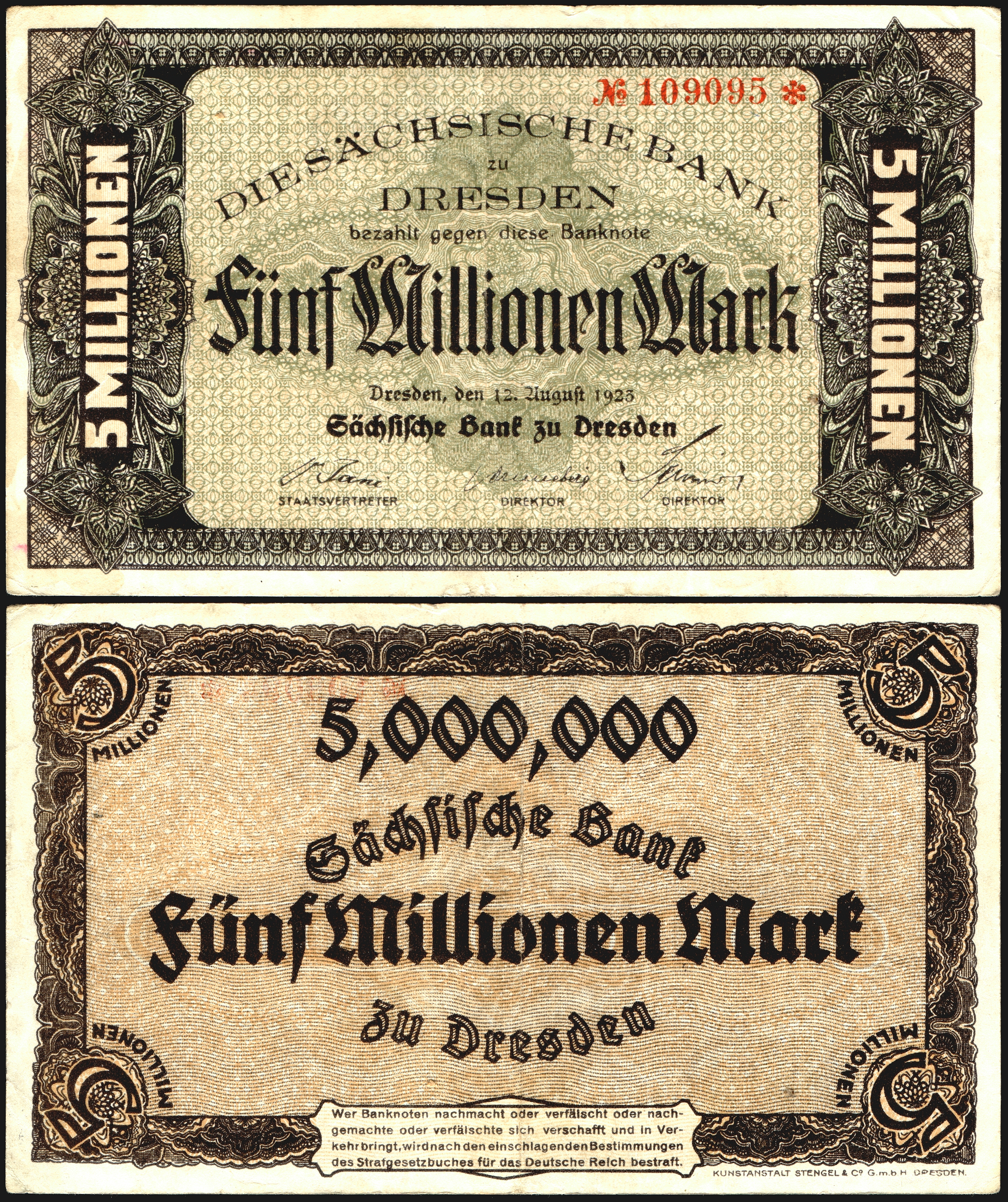 "Notgeld" banknote: five million Mark, Sächsische Bank zu Dresden (1923), size: 83 mm x 140 mm.